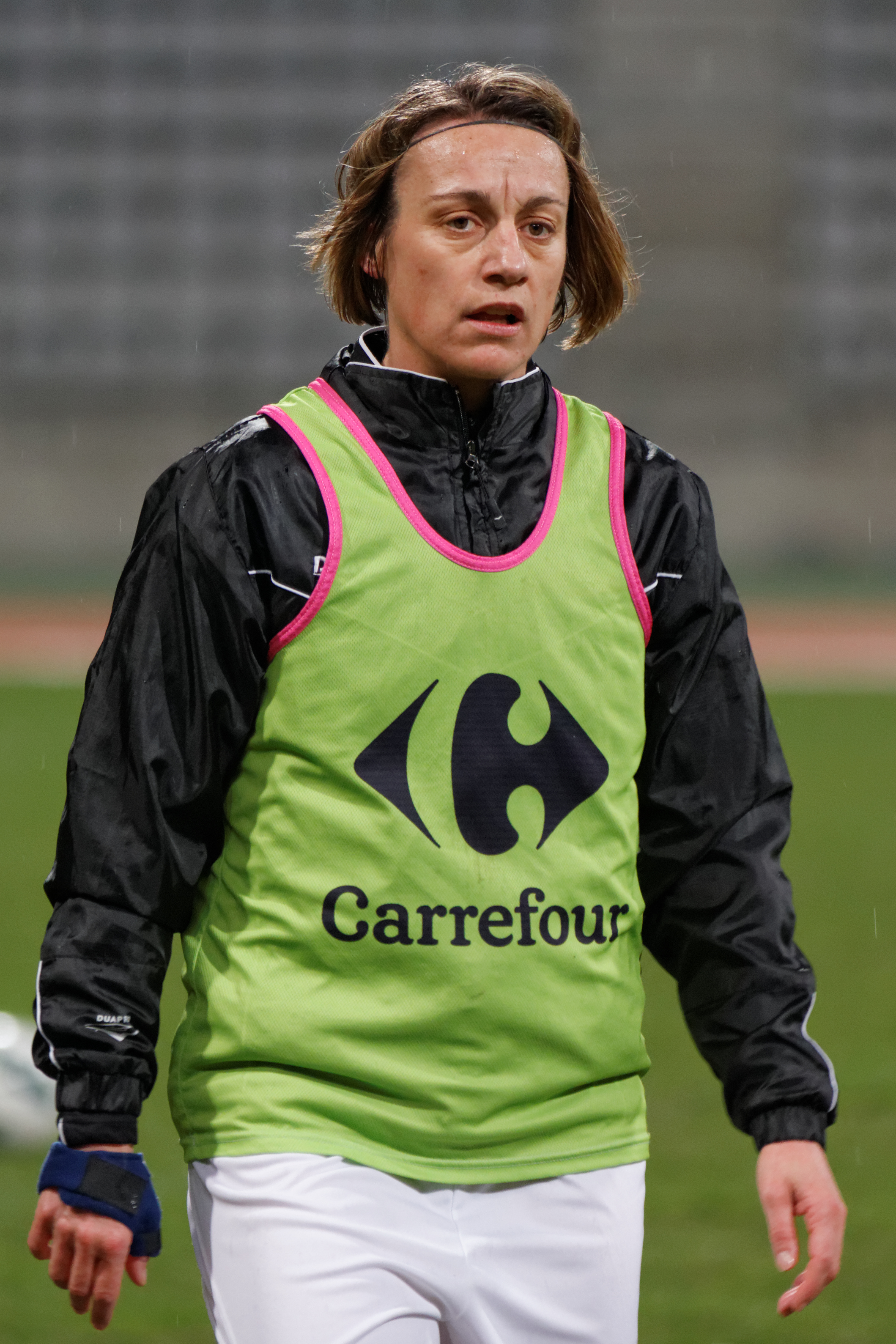 PSG-Juvisy, March 23th, 2013.